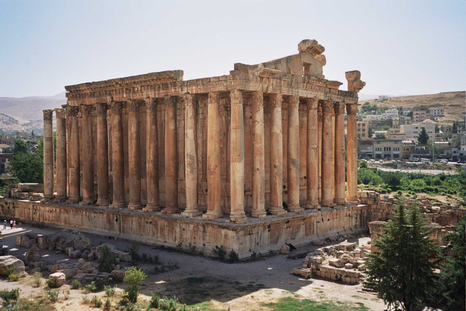 ...in pretty good shape too. you can see the modern town of baalbek in the background.